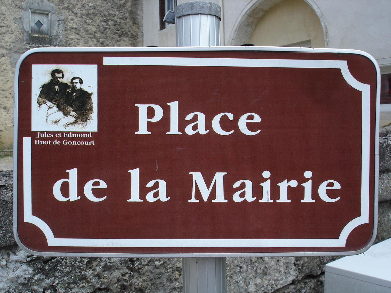 street name plate in Goncourt, Haute-Marne, showing picture of Jules and Edmond de Goncourt